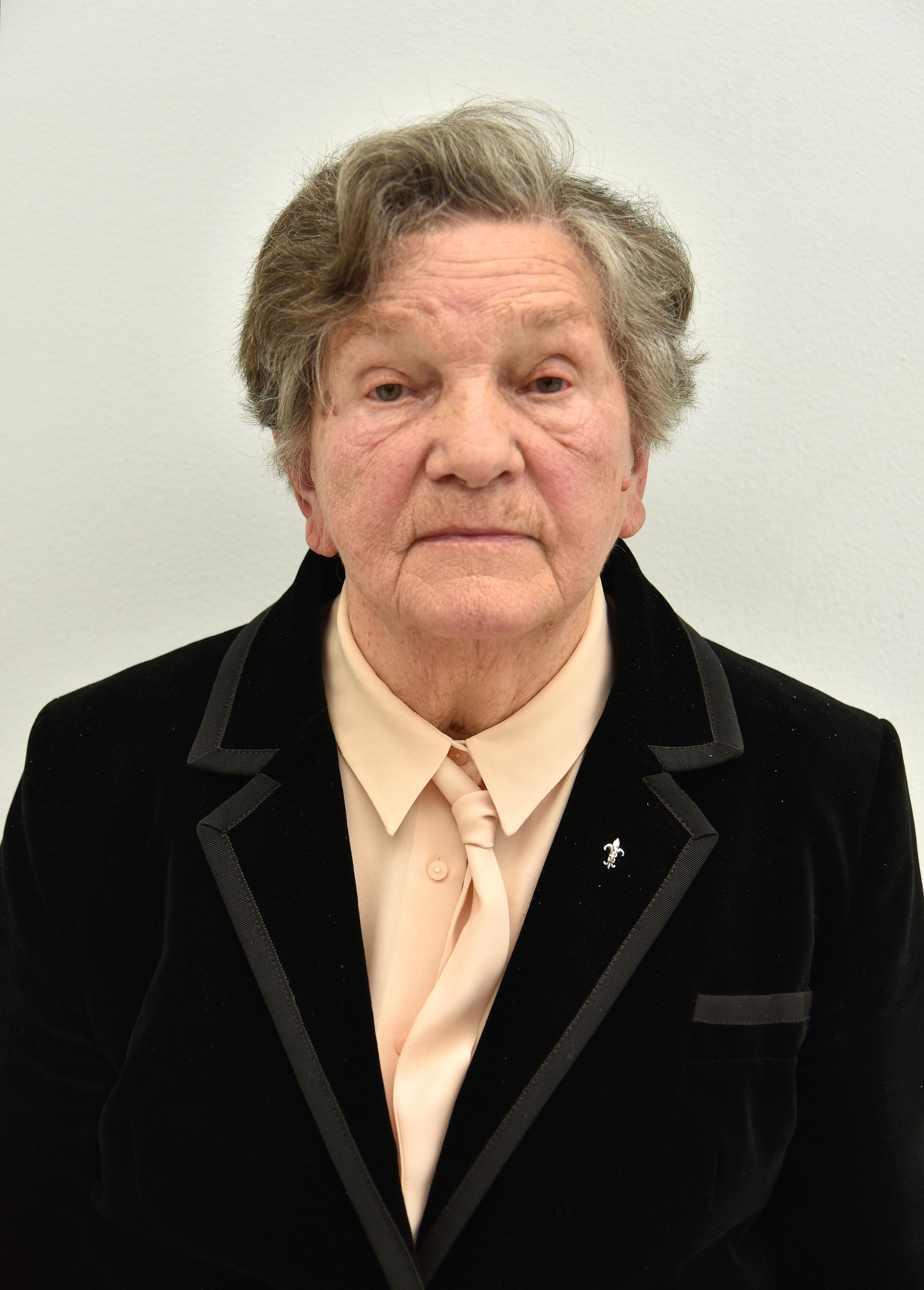 Wanda Traczyk-Stawska in the Sejm